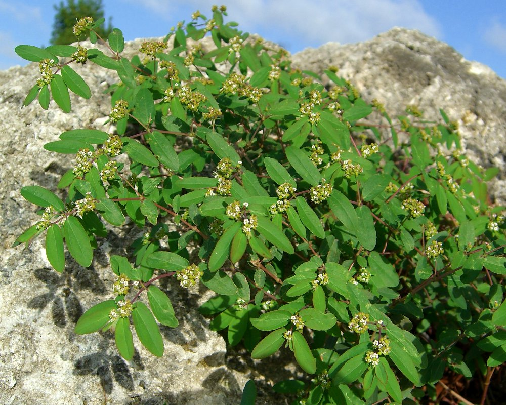 Scientific Name: Chamaesyce hypericifolia (L.) Millsp. Common Name: Graceful Sandmat Certainty: positive (notes) Location: Florida Keys; Upper Keys; Buttonwood Bay Date: 20070108